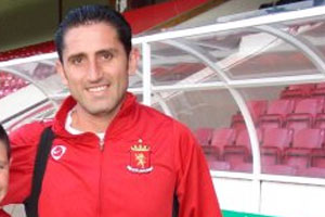 Picture of Stefan Giglio.